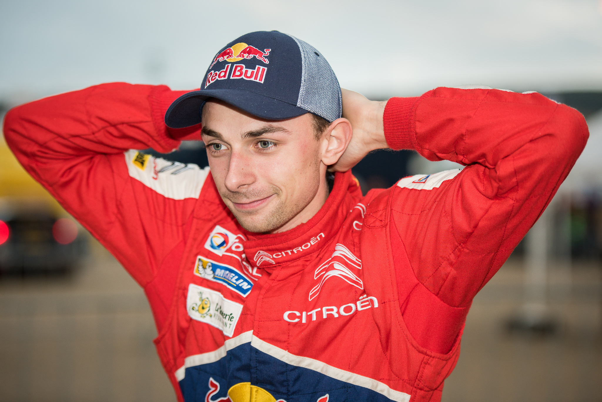 ADAC Rallye Deutschland 2014,FIA,FIA World Rally Championship,Motorsport,Rally,Rallye,Stephane Lefebvre,WRC